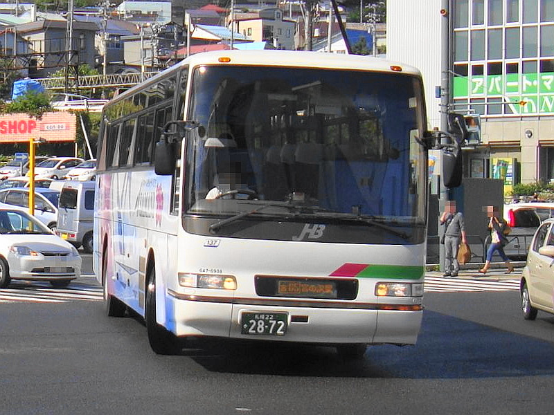 Otaru Station to Miyanosawa Station